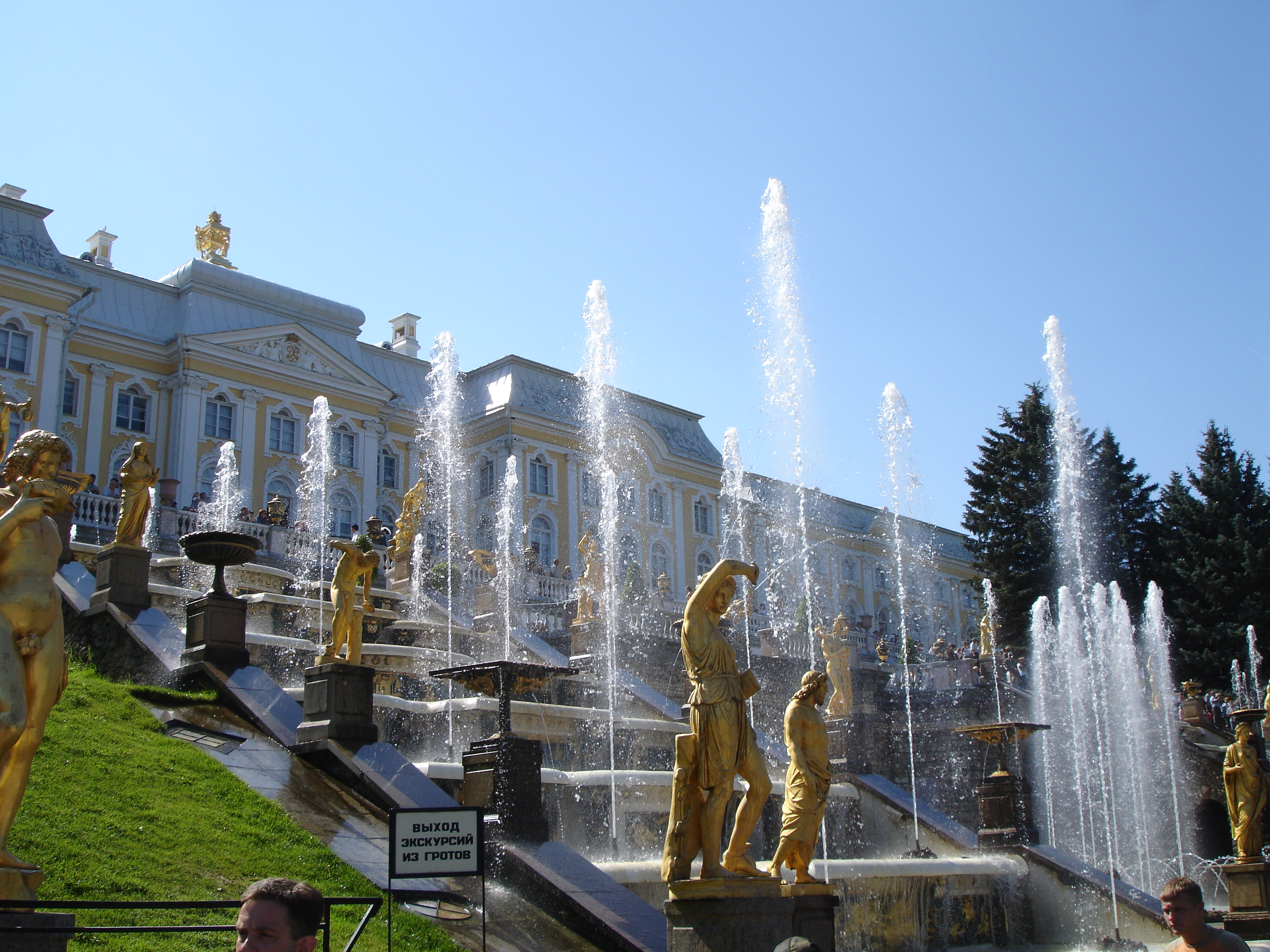 Peterhof is situated on the southern shore of the Gulf of Finland, about 22 miles southwest of St. Petersburg. Also known as Petrodvorets, it was founded in 1710 as a summer residence for Peter the Great. Altered and extended over the years, it was almost completely rebuilt between 1747 and 1754. Inside the Grand Palace are many splendid displays of art, decorative objects and furniture. The Palace over-looks a vista of spreading gardens and fountains. See set comments for St. Petersburg Overview & History.